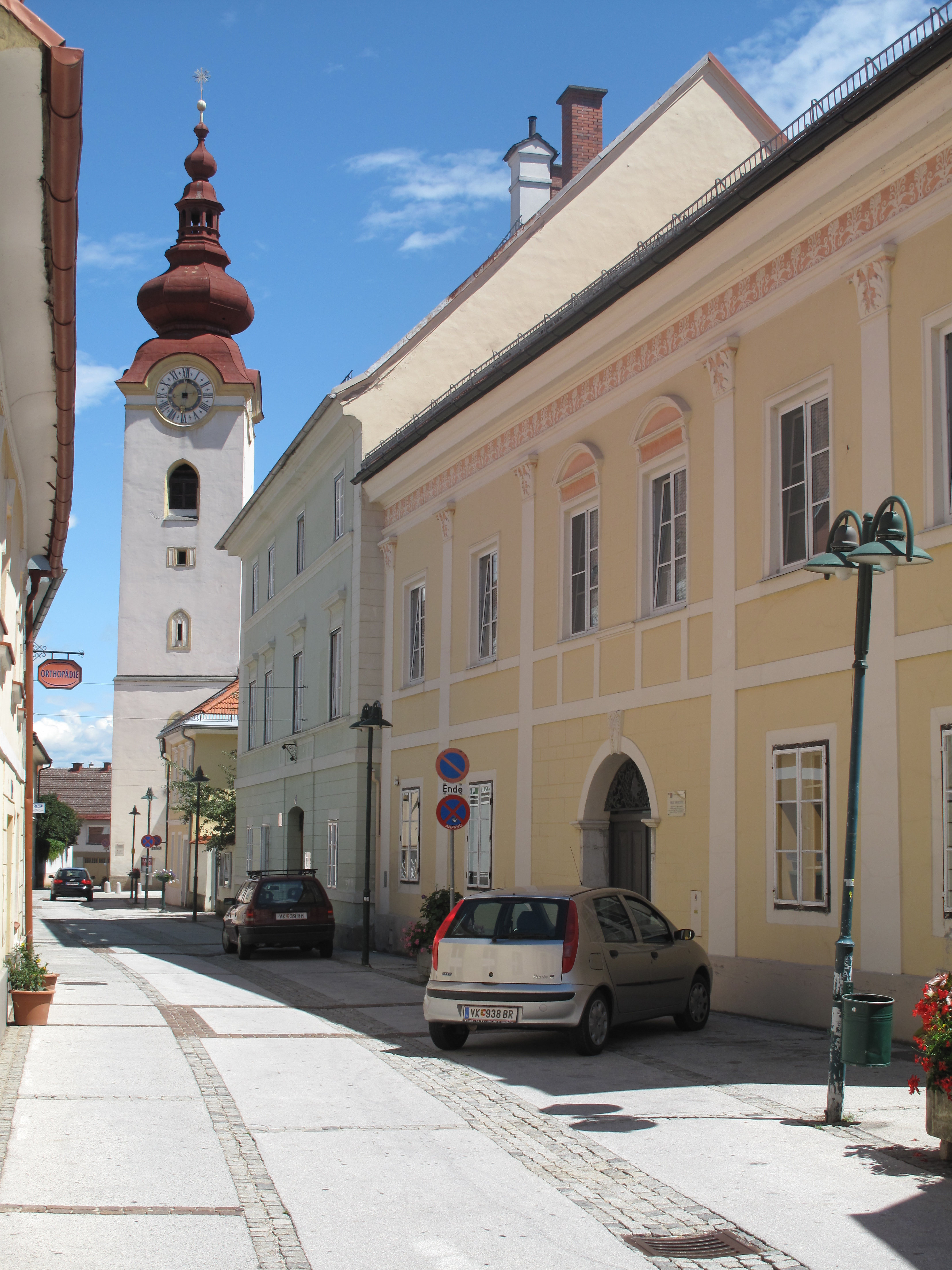 Völkermarkt, church